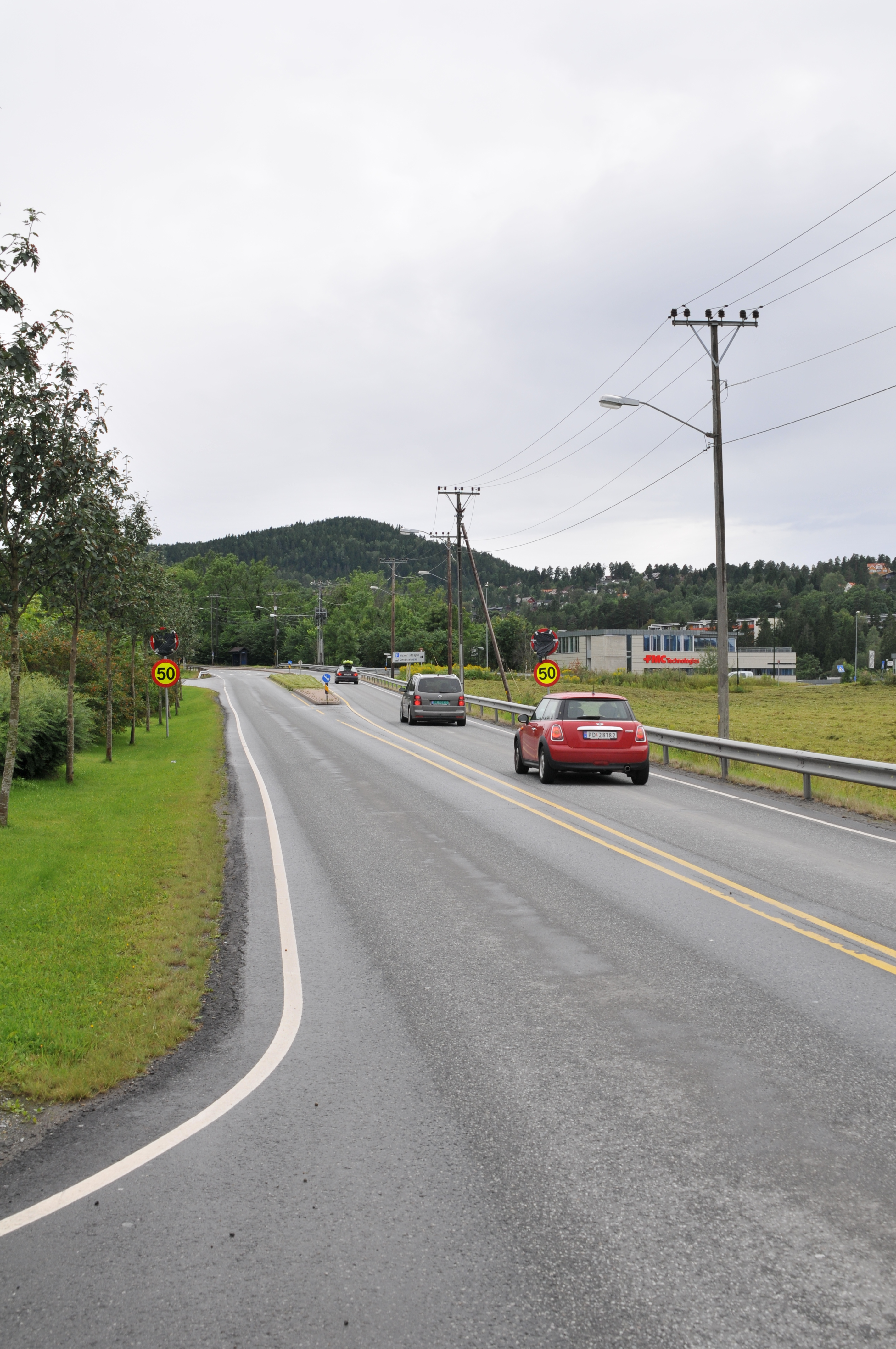 Røykenveien in Asker with Lensmannslia intersection on the right side.